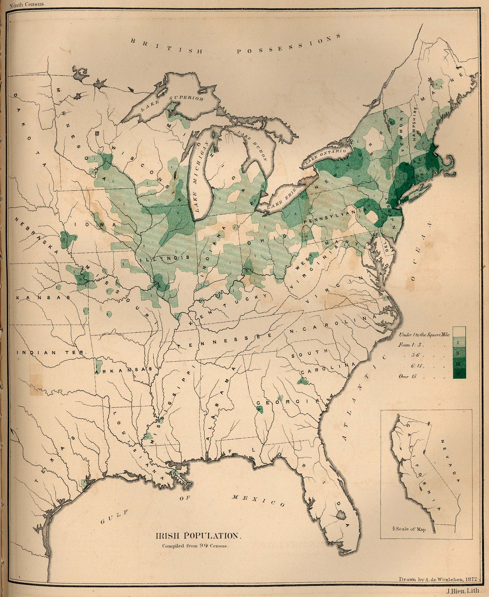 Irish Americans in 1872. From The Statistics of the Population of the United States, Compiled from the Original Returns of the Ninth Census, 1872. Perry-Castañeda Library Map Collection.))